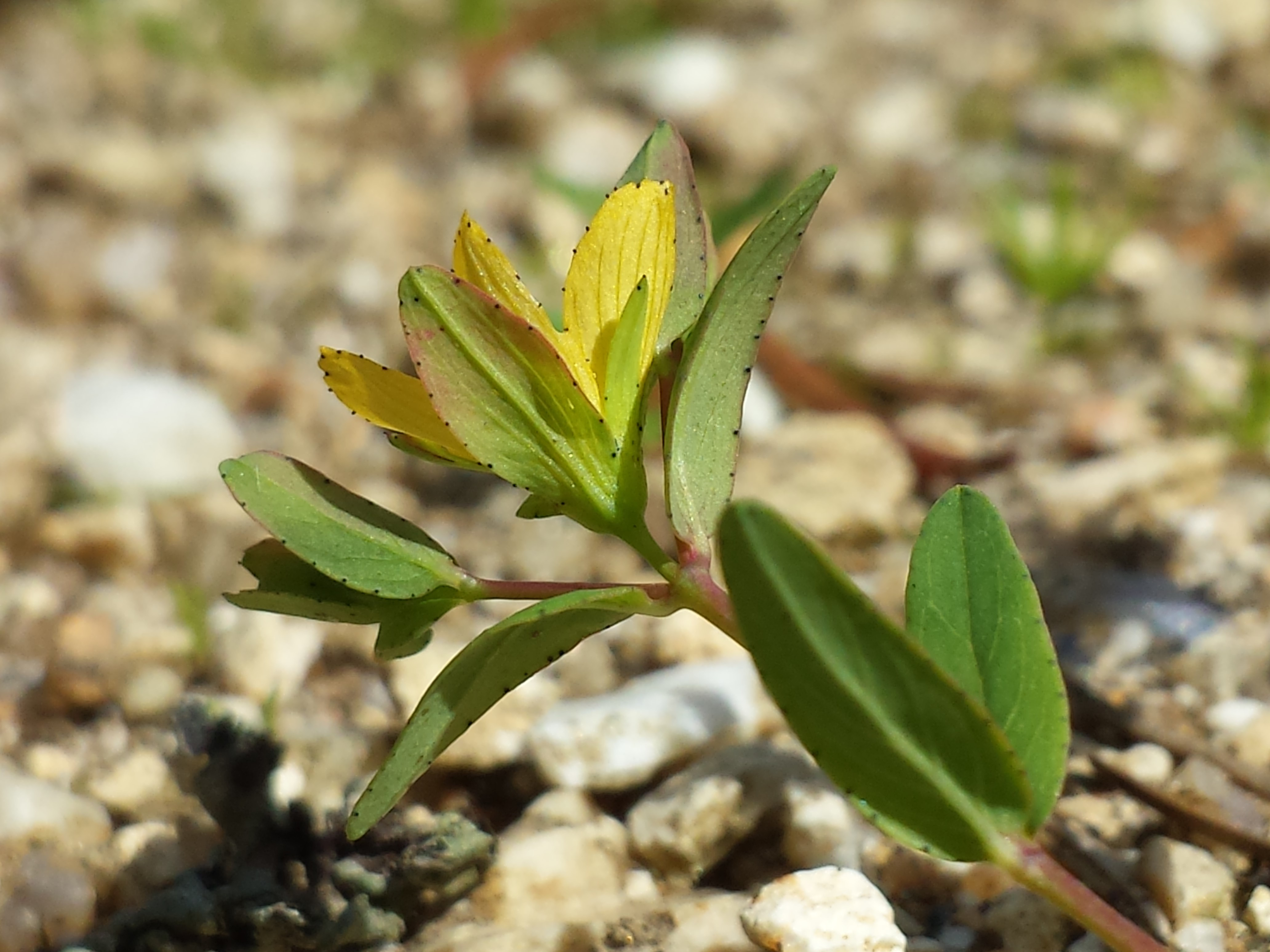 Inflorescence Taxonym: Hypericum humifusum ss Fischer et al. EfÖLS 2008 ISBN 978-3-85474-187-9 Location: Meloner Au near Altmelon, district Zwettl, Lower Austria - ca. 900 m a.s.l. Habitat: way